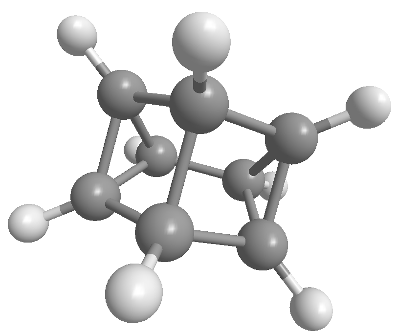 A rough model drawn by Chem3D